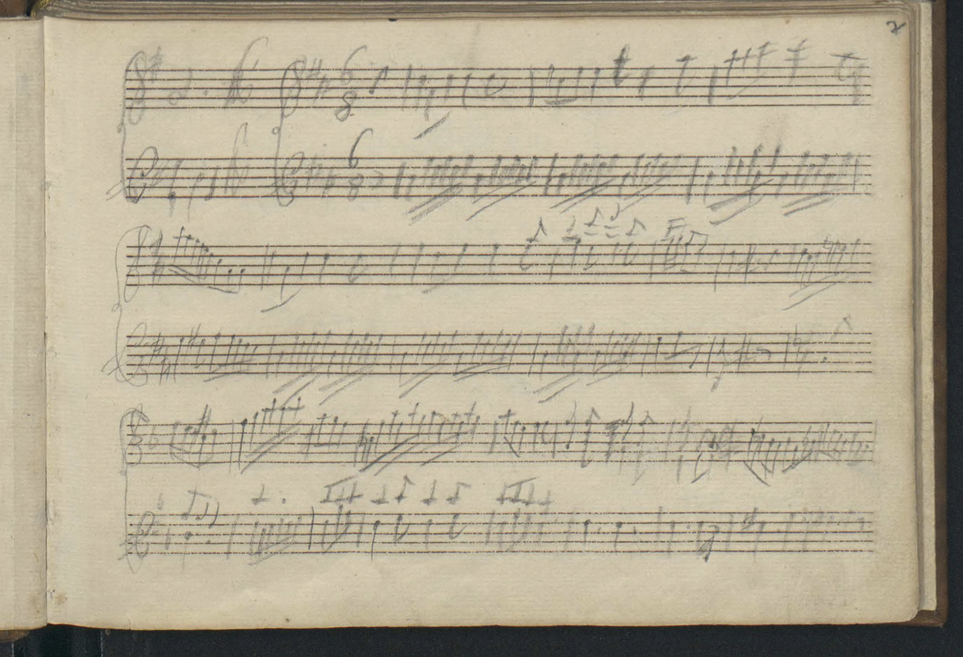 5th page from the "Londoner Skizzenbuch"